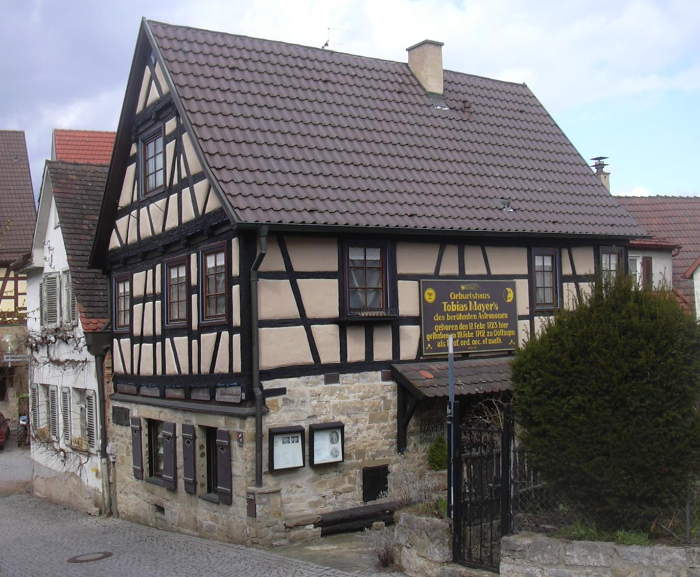 Birth house of the astronomer Tobias Mayer in Marbach am Neckar (Germany), today a museum